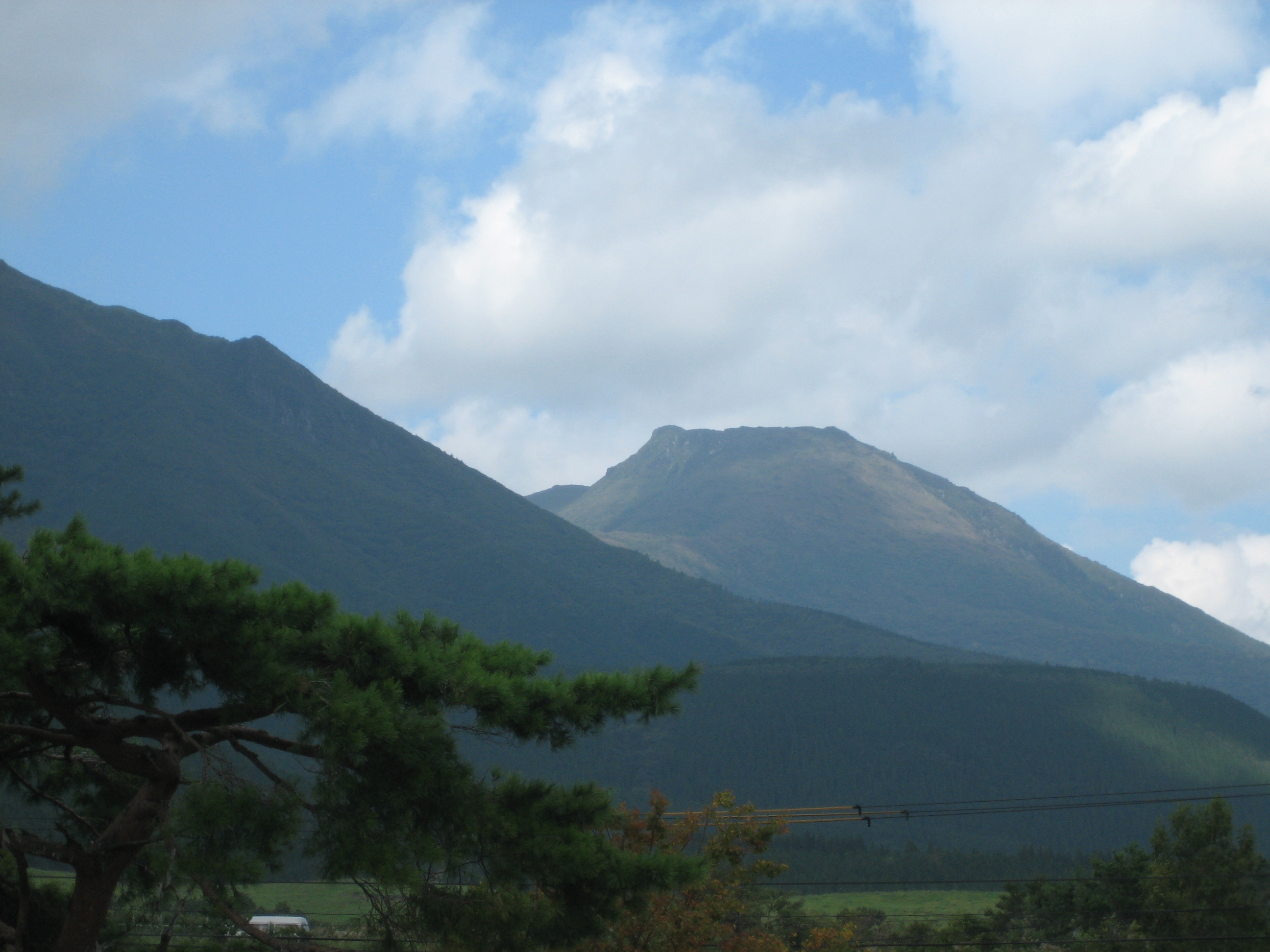 Mt. Inaboshi